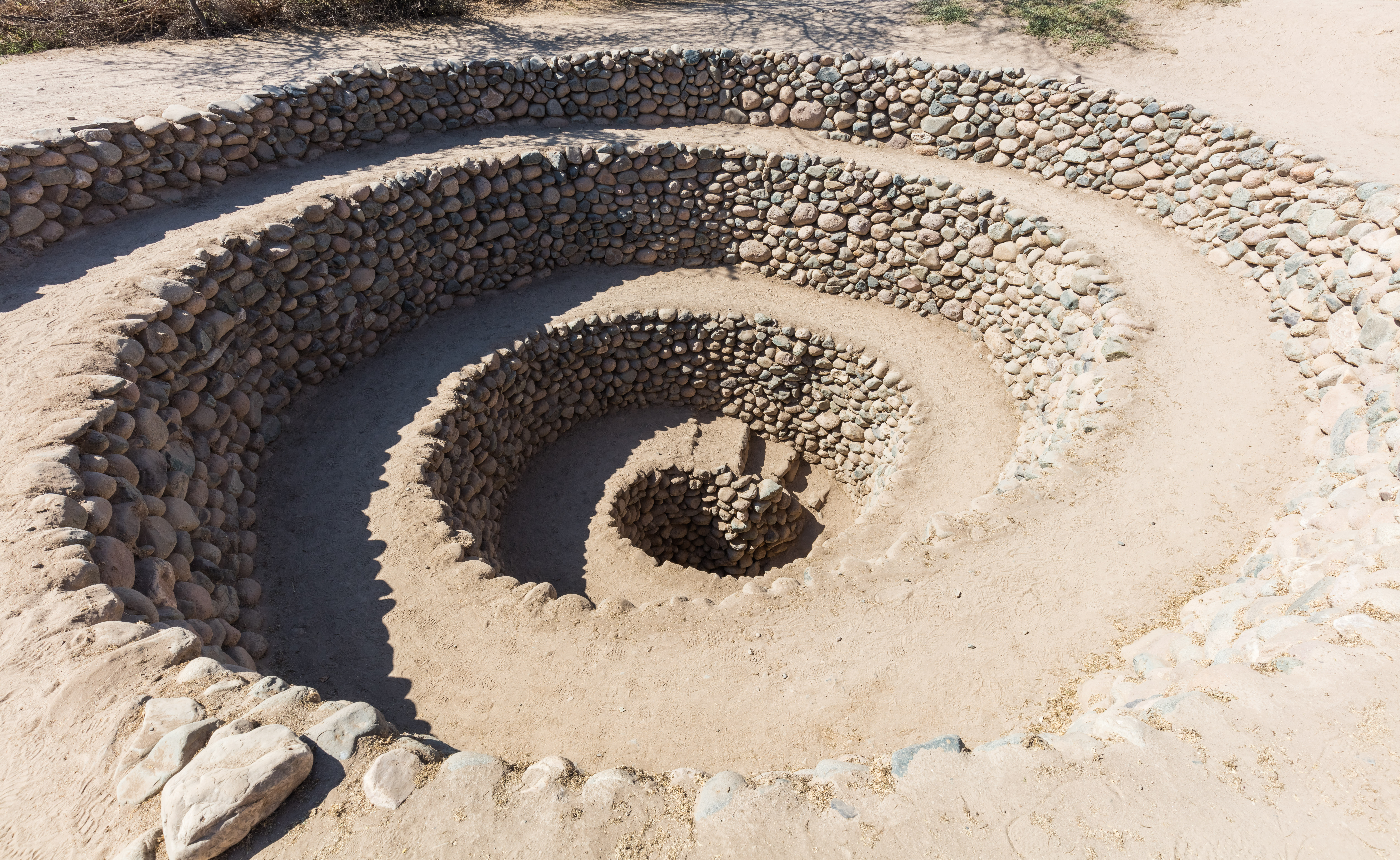 Cantalloc subterranean aqueducts, Nazca, Peru